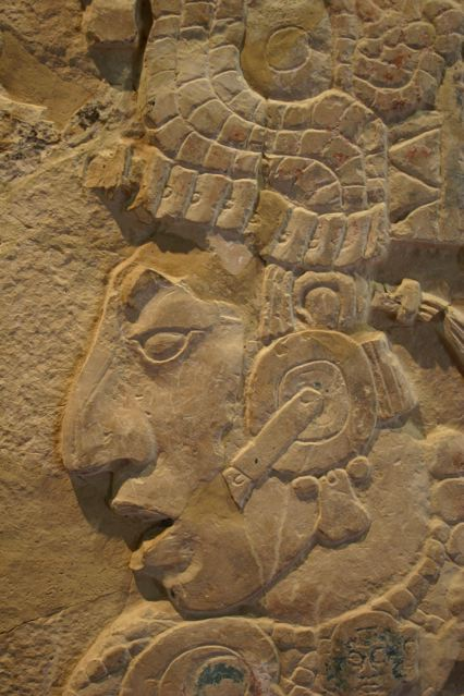 King K'inich Kan Balam II of Palenque, Temple XVII panel. Detail